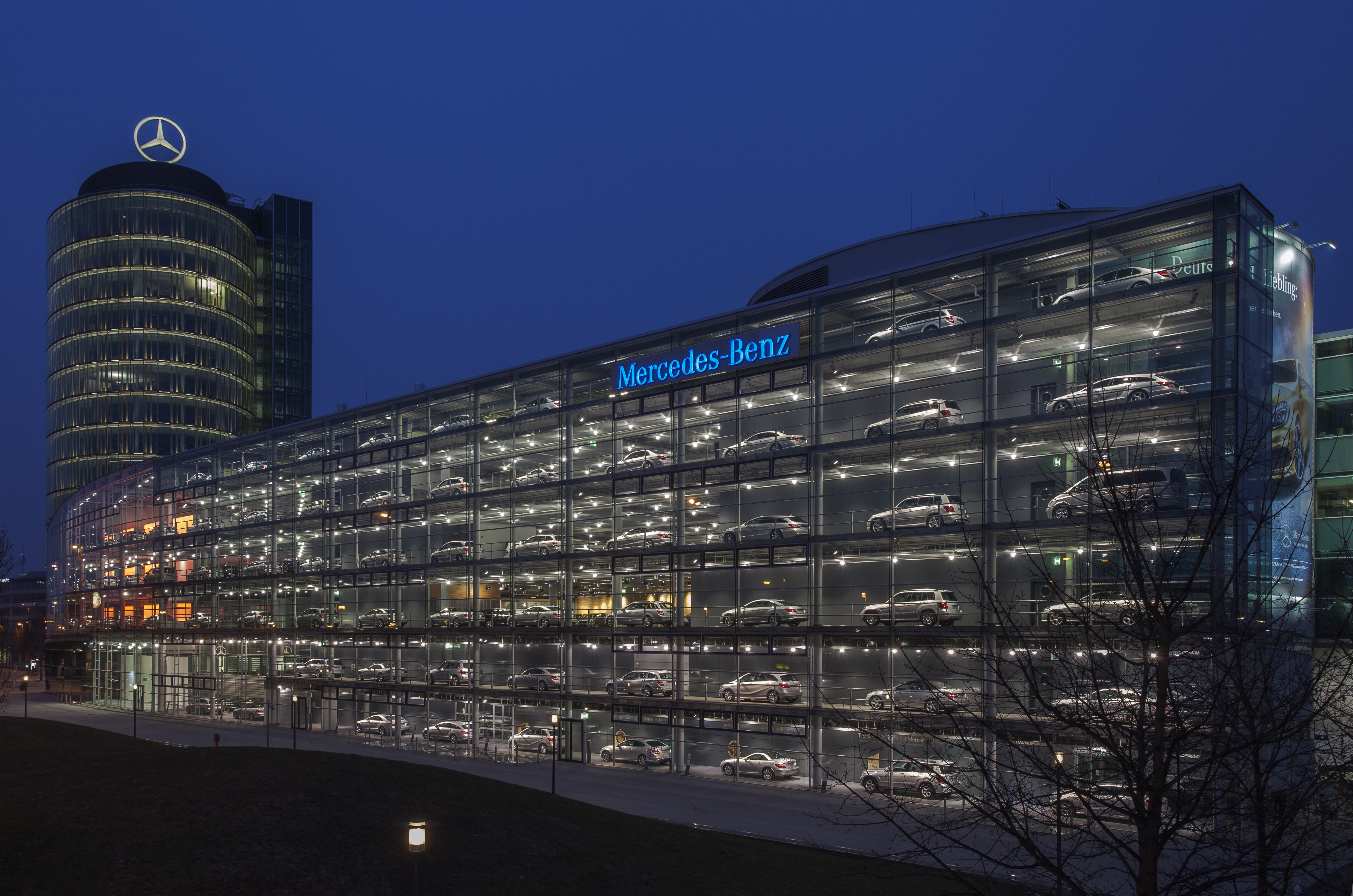 Mercedes-Benz dealership, Munich, Germany